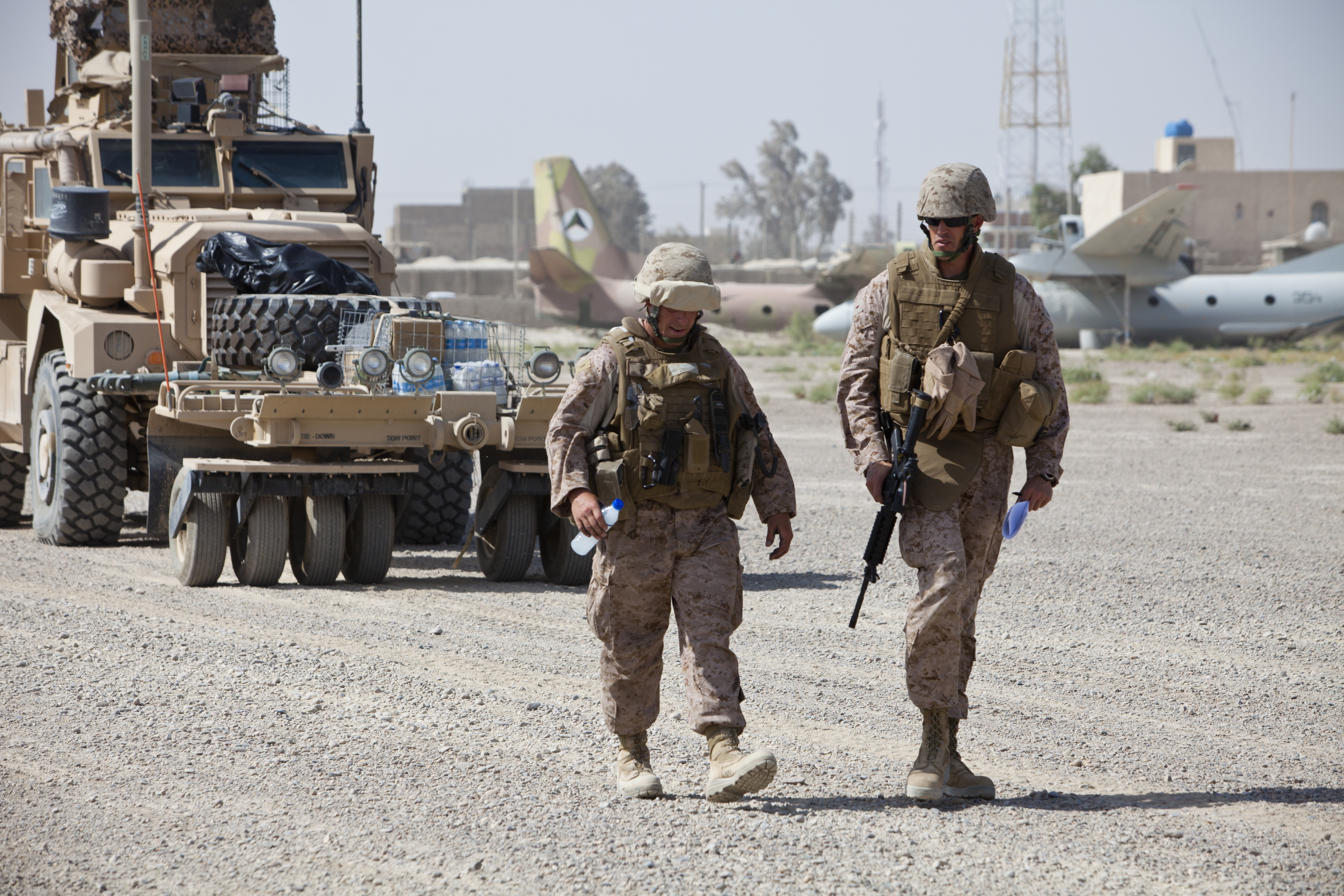 From left, U.S. Marine Corps Chief Warrant Officer 2 Theodore Hensley and Chief Warrant Officer 4 Stephen Rudinski with 3rd Marine Aircraft Wing (Forward), walk along the Zaranj Airfield, Nimroz province, Afghanistan, July 16, 2012 looking for any features on the runway that may be a safety concern for pilots landing a KC-130J Hercules aircraft. The assessment was done to determine the airfields ability to safely land a KC-130J Hercules aircraft. (Photo ID: 628007)